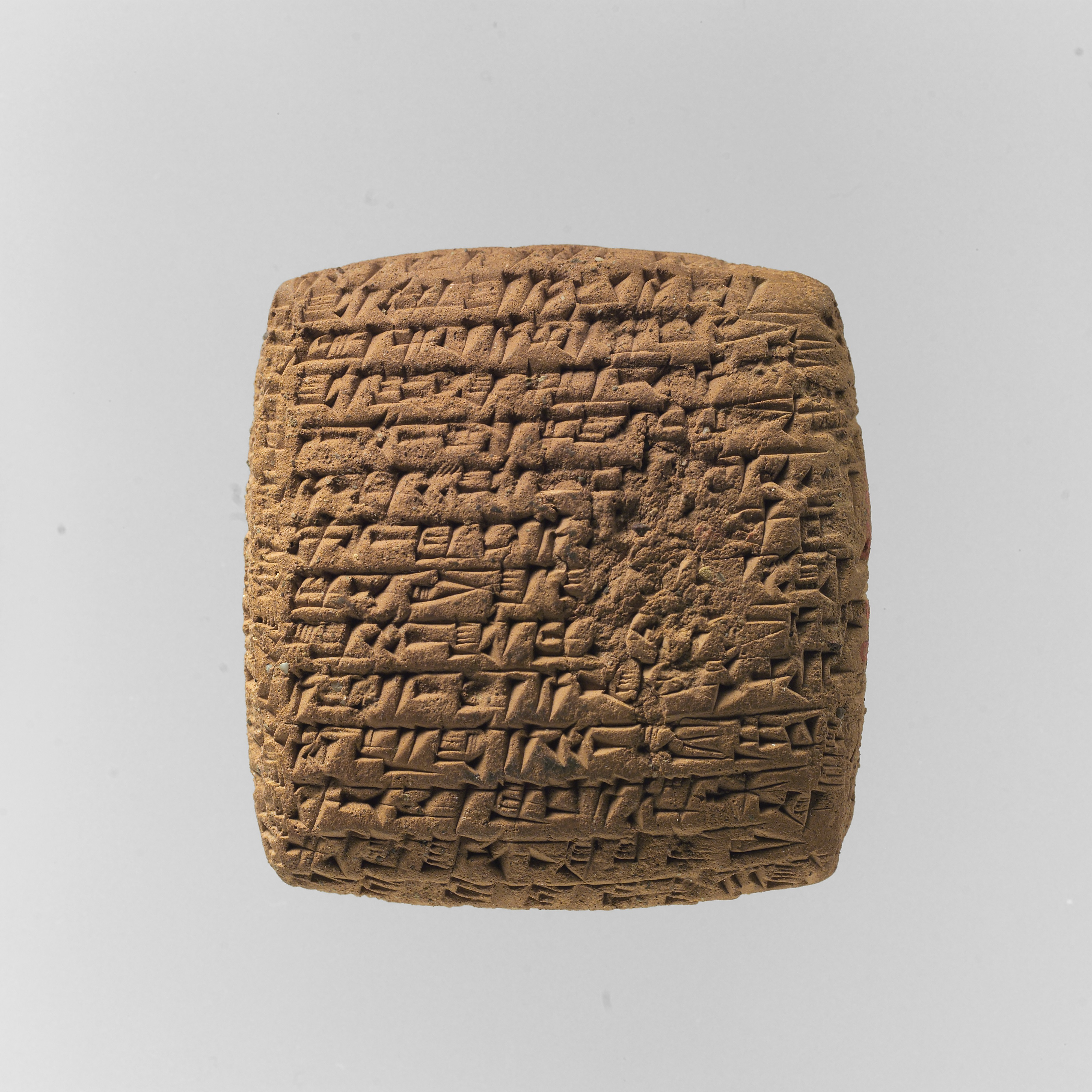 Old Assyrian Trading Colony; Cuneiform tablet; Clay-Tablets-Inscribed